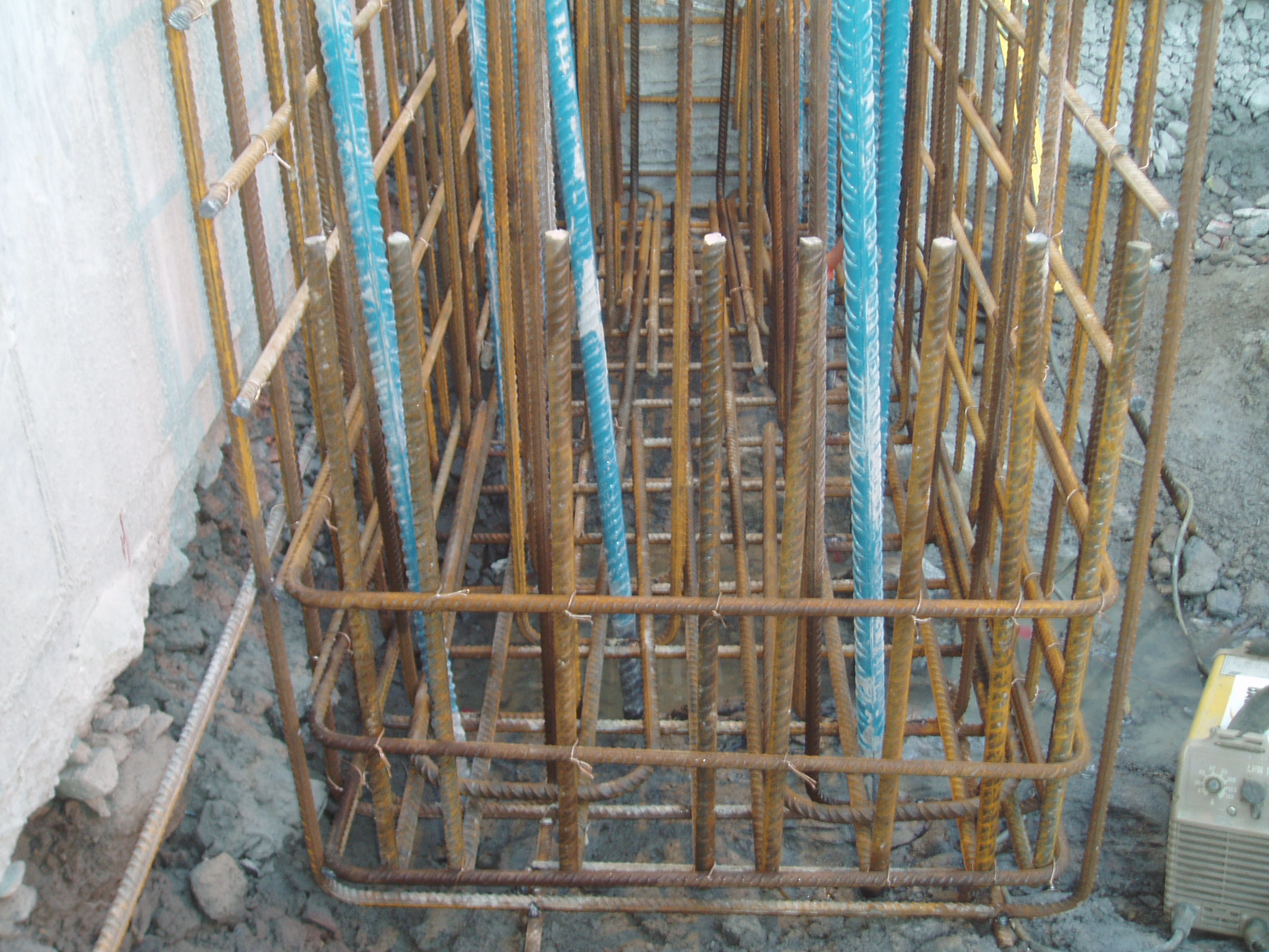 Reinforcement bars treated with epoxy. The picture is taken by JohnM the 7th of December 2005.